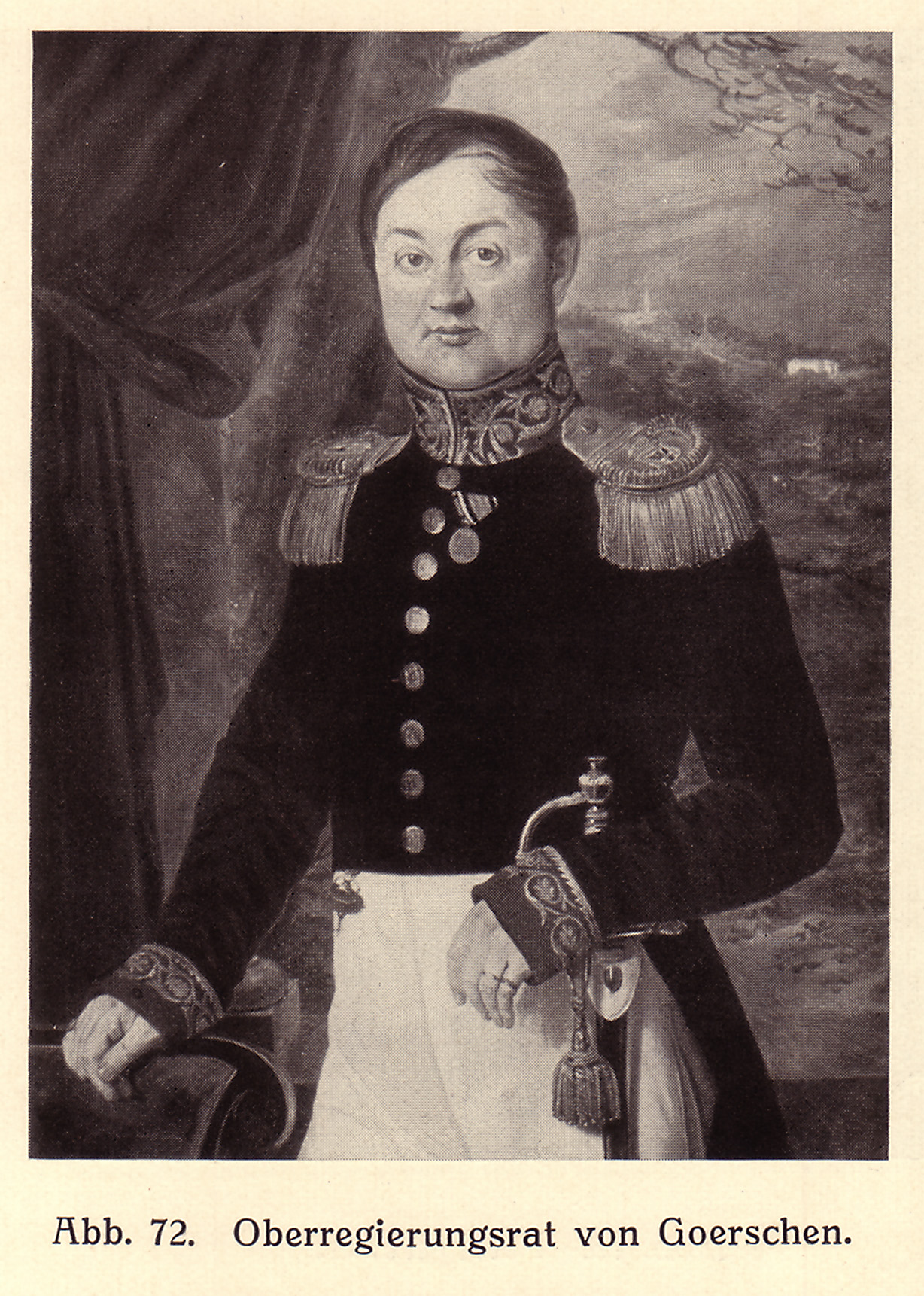 prussain privy councillor Karl Heinrich von Goerschen (1784-1869)